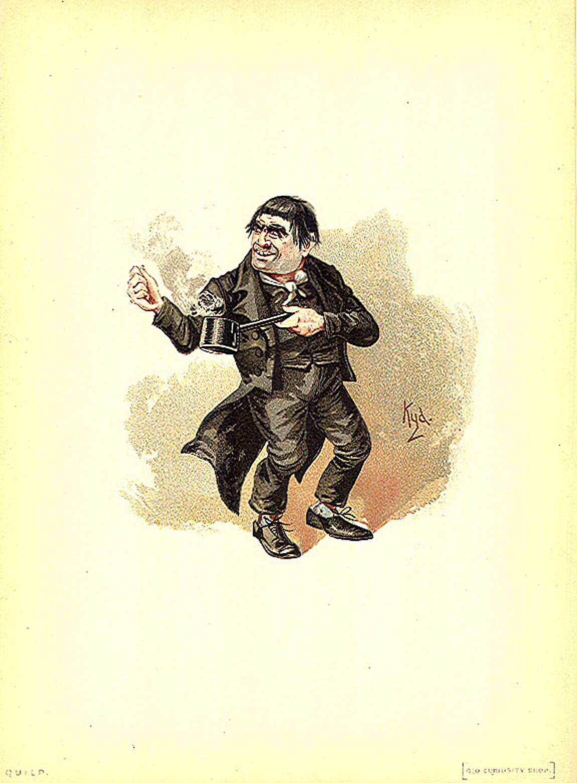 From "Character Sketches from Charles Dickens, Pourtrayed by Kyd", or "The Characters of Charles Dickens Pourtrayed in a Series of Original Water Colour Sketches by Kyd." Scanned and archived at where it was marked as Public Domain.